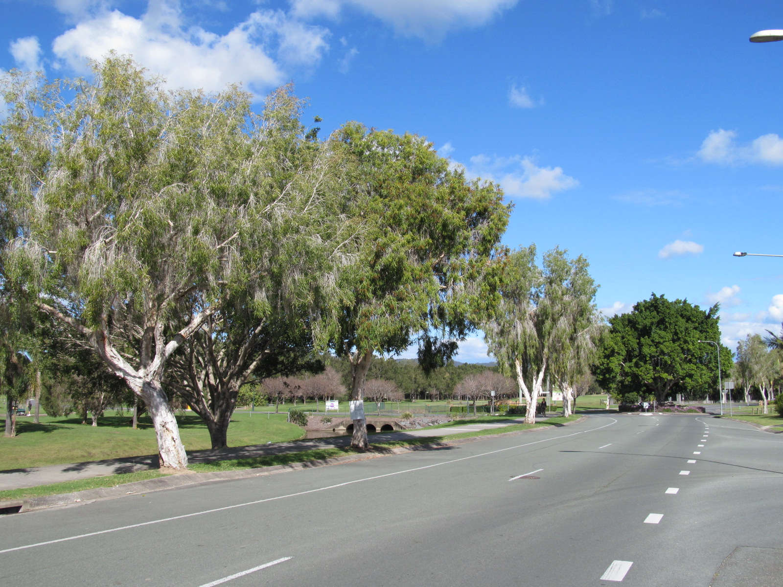 Carl Heck Drive, Windaroo, Queensland, looking along the Windaroo Memorial Peace Park.